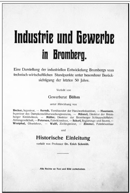 1907 industry and commerce Bydgoszcz